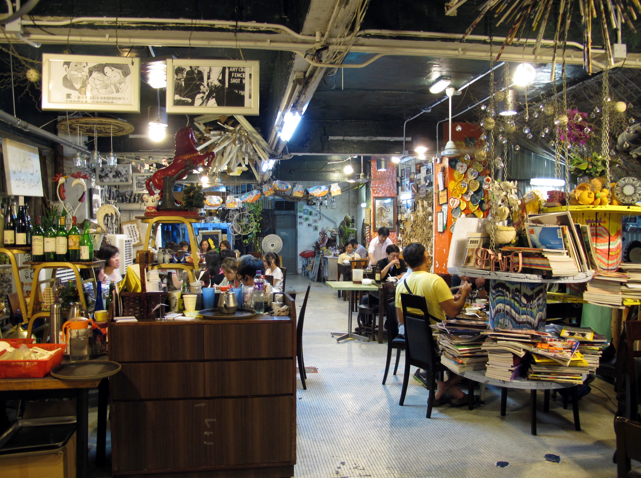 Shing Kee Noodles in Lek Yuen Estate